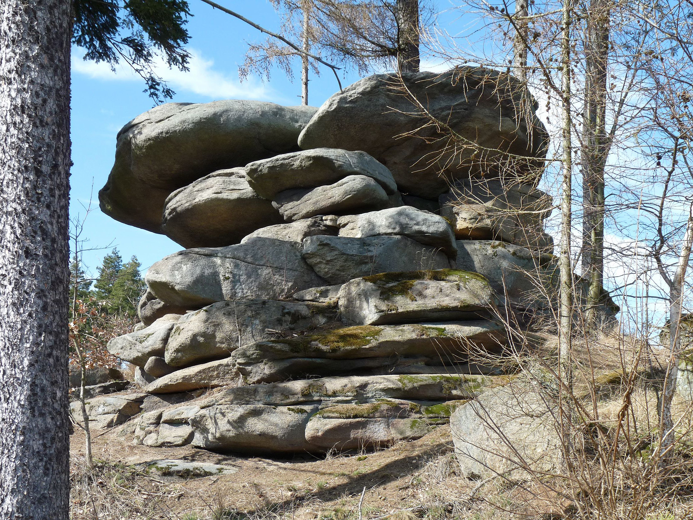 Velký Čertův náramek (Big Devil's Bracelet) is a stone natural monument betwen the villages of Slatina and Kadov, Klatovy District, Czech Republic, on the educational trail Kadovský viklan.